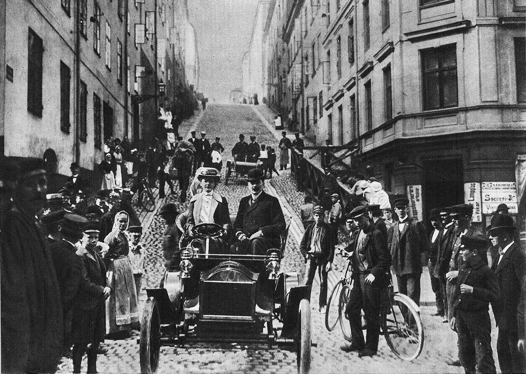 Alexandra Gjestvang was Sweden's first female driver, here at the helm of a 1904 Oldsmobile on Brännkyrkagatan in Stockholm in 1907.